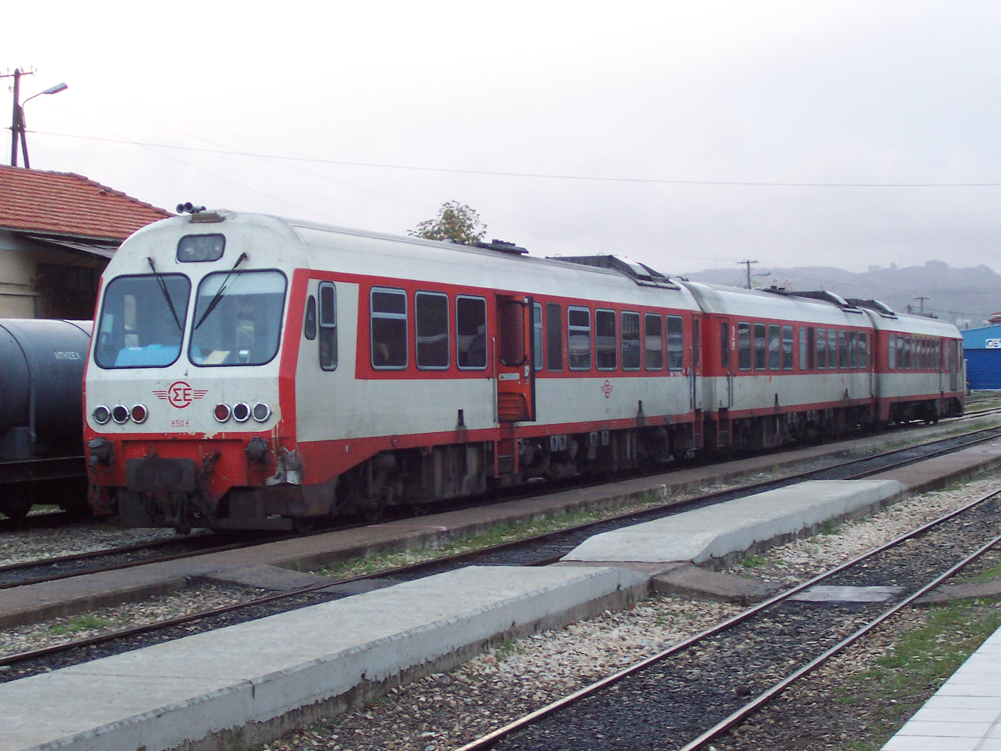 6501 series DMU unit (1000mm narrow gauge), Intercity trains in Pelopnese, Greece. This shot is from railway station in Pyrgos, Greece